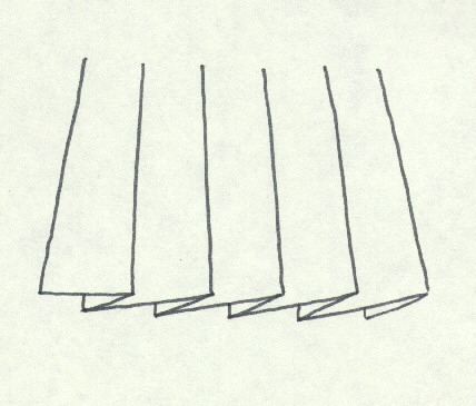 A knife pleat is a sharply pressed pleating, esp. in a skirt of kilt, in which all of the folds are turned in one direction, with each pleat being three (3) layers of fabric thick. (Note: if anyone reading this can improve on the image, say by adding width and depth indicators, please feel free to do so and load the new, improved image right over the top of this one, which is being used in Wiktionary)